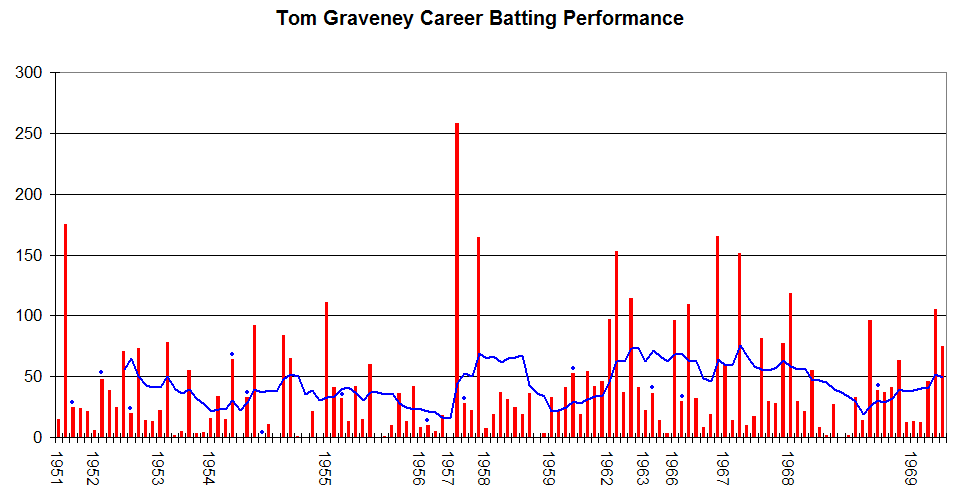 This graph details the Test Match performance of Tom Graveney. It was created by Raven4x4x. The red bars indicate the player's test match innings, while the blue line shows the average of the ten most recent innings at that point. Note that this average cannot be calculated for the first nine innings. The blue dots indicate innings in which Graveney finished not-out. This graph was generated with Microsoft Excel 2002, using data from Cricinfo and .au.